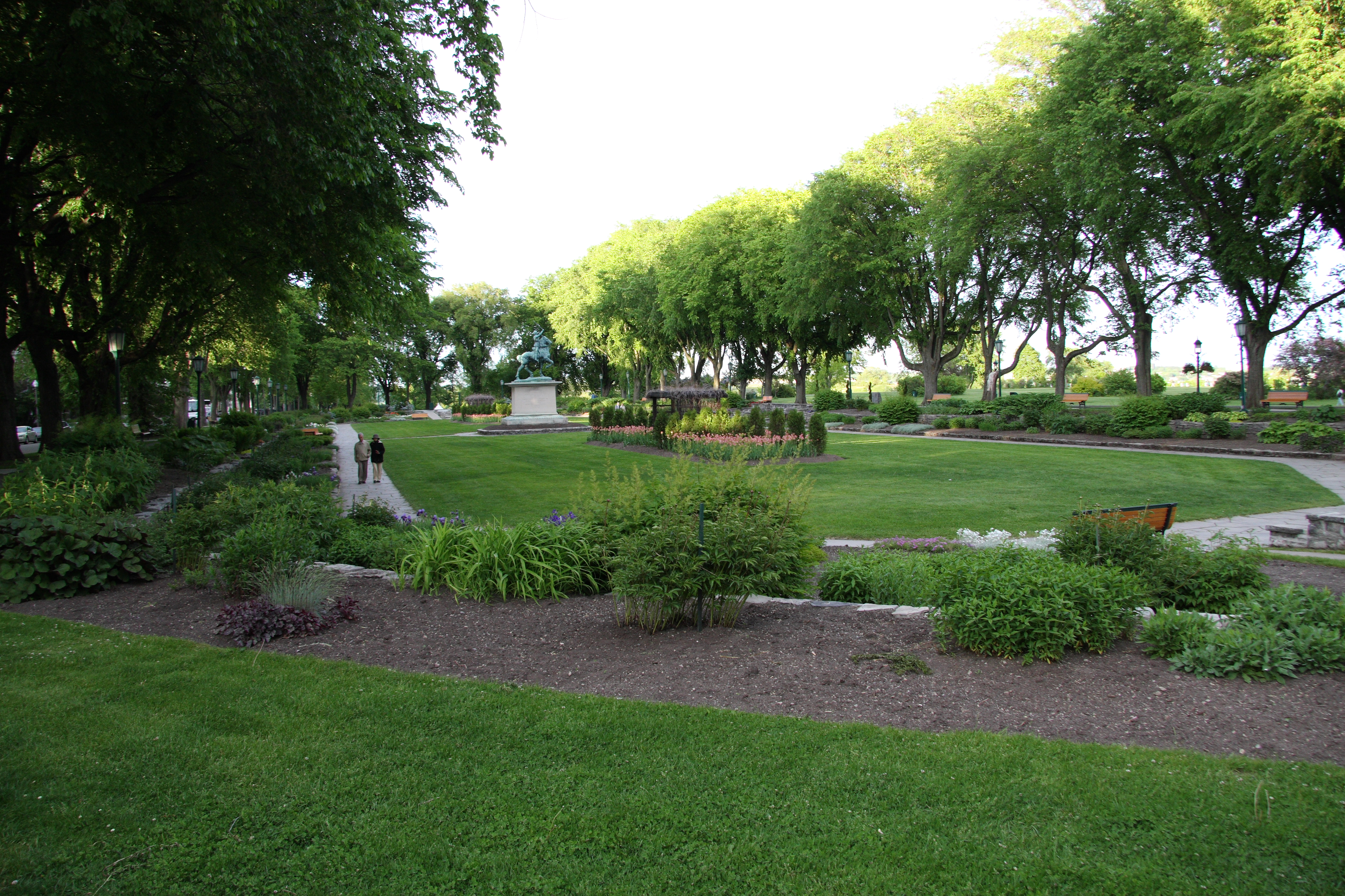 Joan of Arc Garden, Plains of Abraham, Quebec City, Canada.